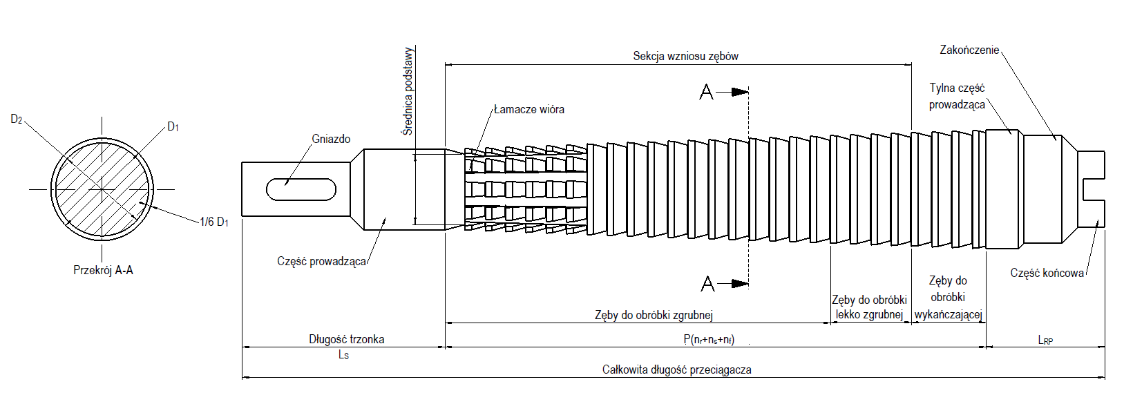 General geometry of a hole broach. Note that P is the pitch, nr is the number of roughing teeth, ns is the number of semi-finishing teeth, and nf is the number of finishing teeth. Based on diagram on from Degarmo, E. Paul; Black, J T.; Kohser, Ronald A. (2003), Materials and Processes in Manufacturing (9th ed.), p. 637. Wiley, ISBN 0-471-65653-4.